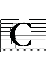 Kerning in Calamus works with sets of left and right bounds measured at different heights for each glyph.